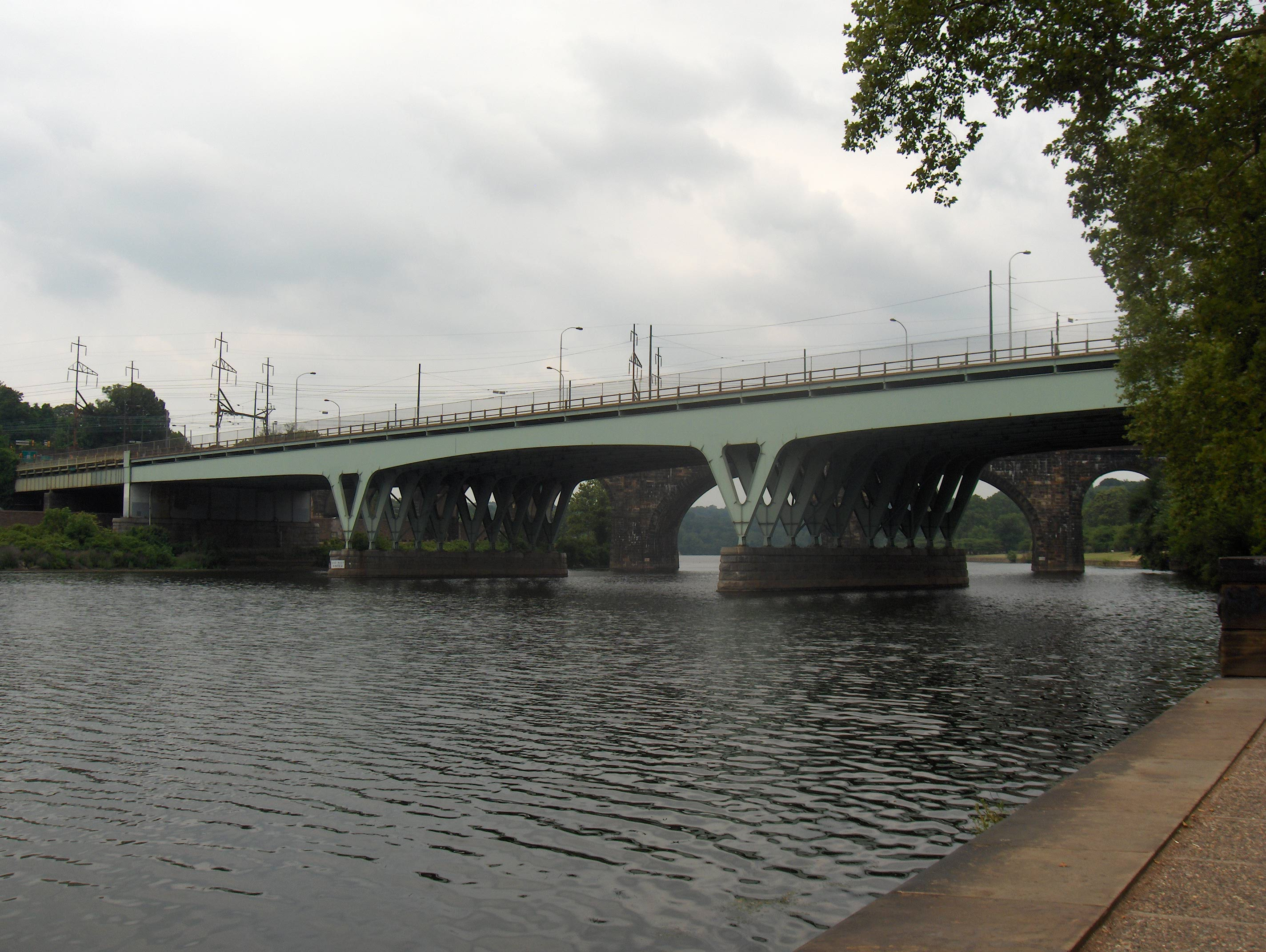 The current Girard Avenue Bridge, built 1969-72, western approaches built 1956, is an automobile and trolley bridge in Philadelphia, Pennsylvania, that carries Girard Avenue over the Schuylkill River. Looking upstream from Kelly Drive.